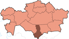 Map of Turkistan Province